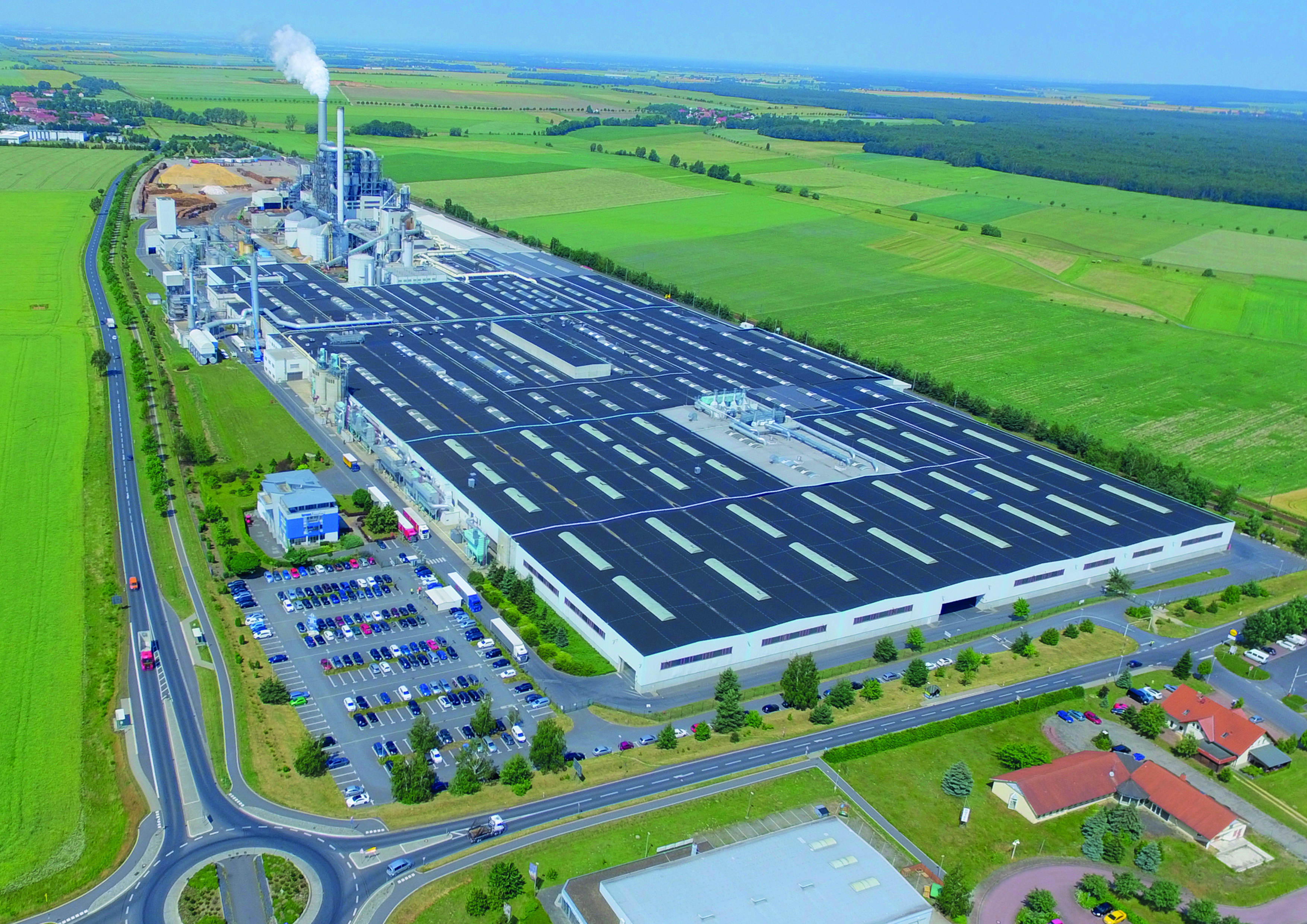 Kronospan facility at Lampertswalde Germany